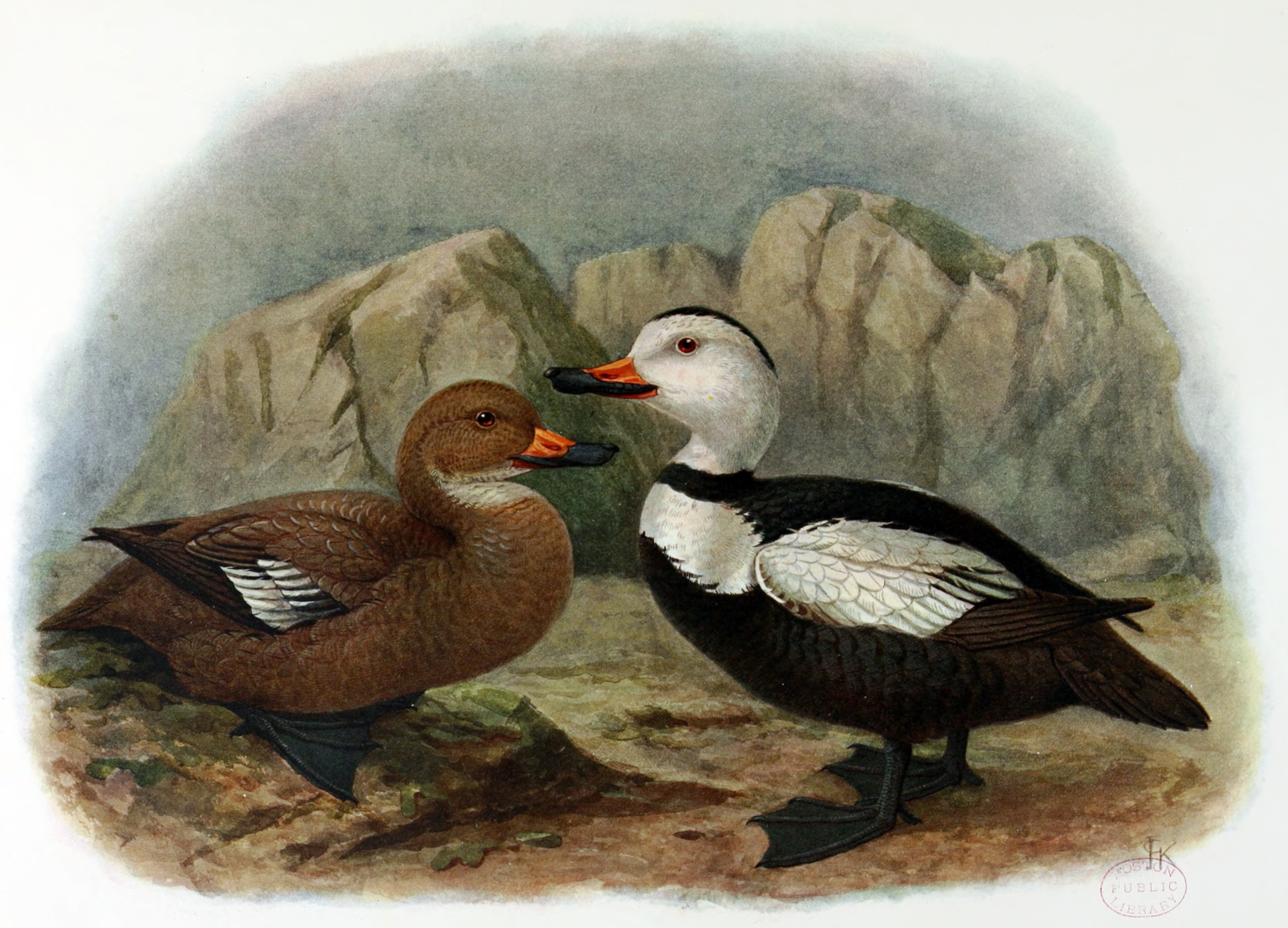 The Labrador Duck, Camptorhynchus labradorius, was a striking black and white eider-like sea duck that was never known to be common, and is believed to be the first bird to go extinct in North America after 1500. The last Labrador Duck is believed to have been seen at Elmira, New York on December 12, 1878; the last preserved specimen was shot in 1875 on Long Island. It was thought to breed in Labrador, although no nests were ever described, and it wintered from Nova Scotia to as far south as Chesapeake Bay. One-Half Natural Size—from Nature